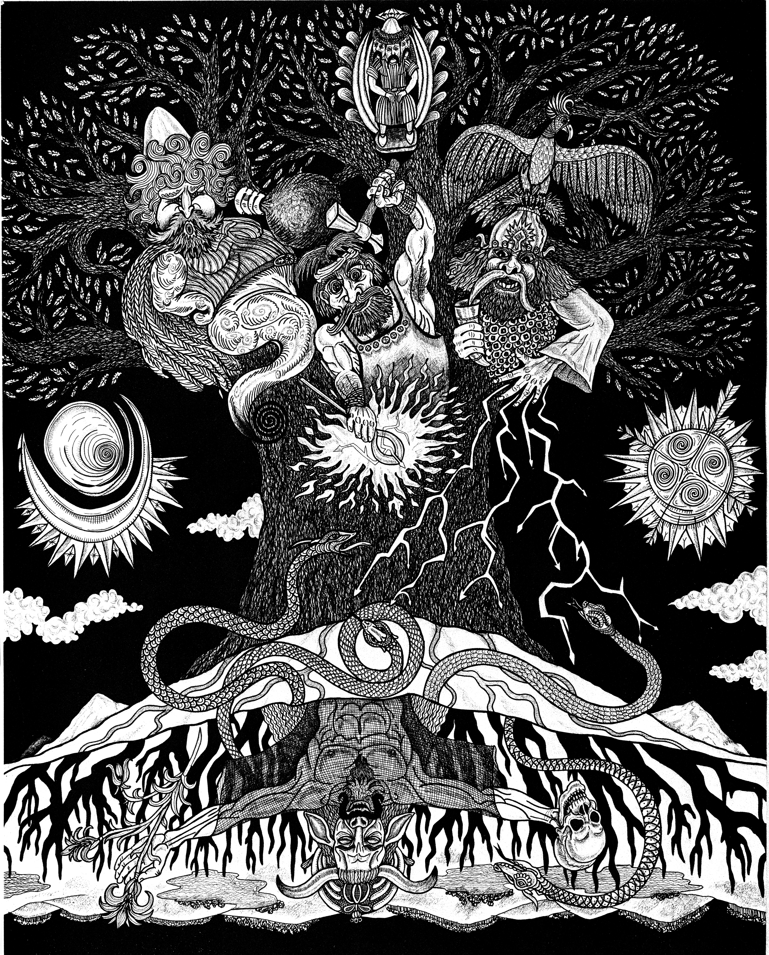 Slavonic World Tree by Marek Hapon